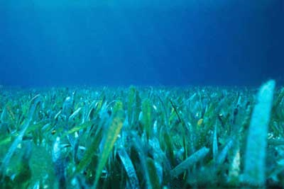 Floridian seagrass bed